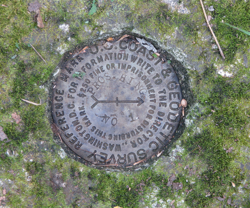 This is Reference Mark No. 1 for station MY4112--PROSPECT HINGHAM, located at the peak of Prospect Hill in Wompatuck State park, Hingham, MA. This is a brass disk, about 3.5 in. in diameter, set in the top of a 12-inch square concrete monument. The arrow points towards the station, which is just over 256 ft. distant (an unusually long distance for a reference mark; most are within 30 ft. of their stations). The PROSPECT HINGHAM station is unusual for another reason: there were a total of six reference marks set for it.